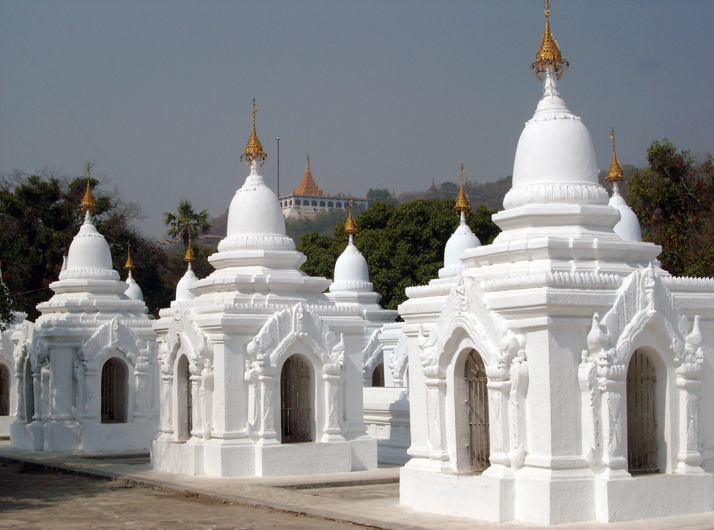 Some of the 729 stupas that house a stone inscription each of the entire Tipitaka or Theravada Buddhist canon and known as the world's largest book at the Kuthodaw (Royal Merit) pagoda at the foot of Mandalay Hill